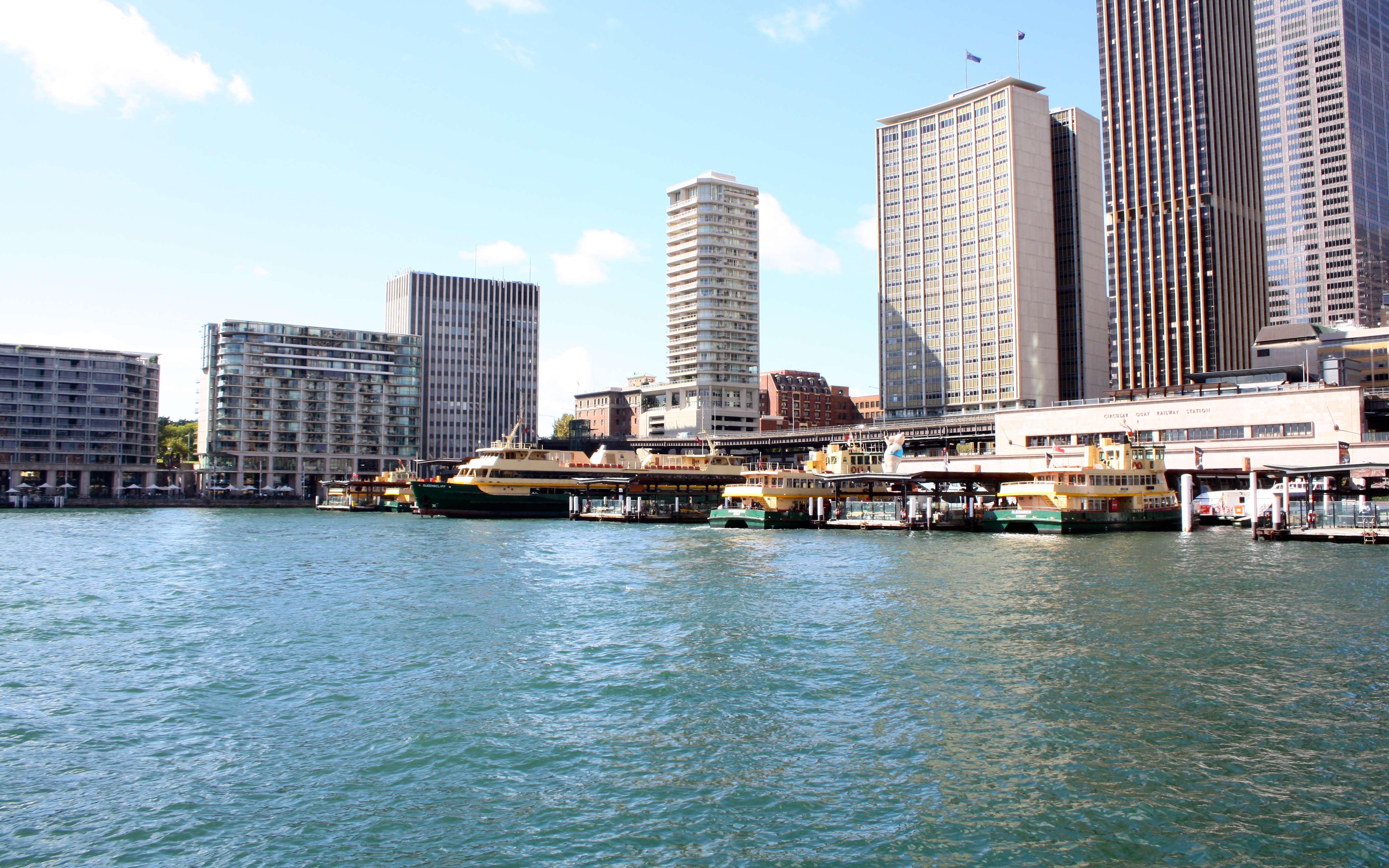 Circular Quay, Sydney